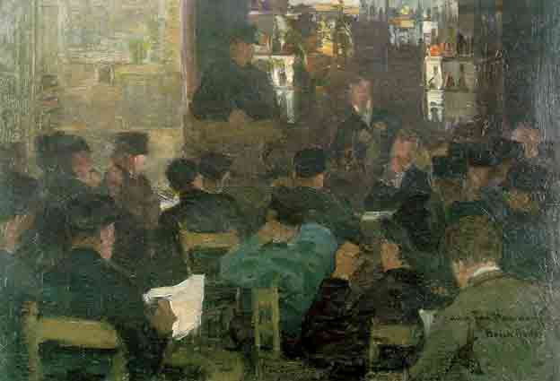 In het kroegje van Jan Hamdorff